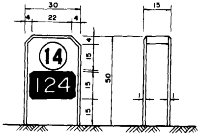 Taiwanese Guide Sign G44: Milestone (The top shows a highway number and the bottom shows kilometers.)